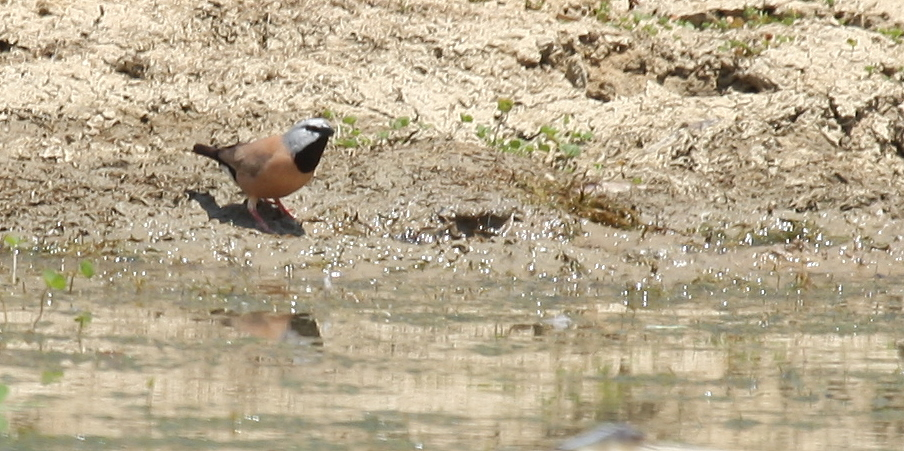 Black-throated Finch Poephila cincta, Australia